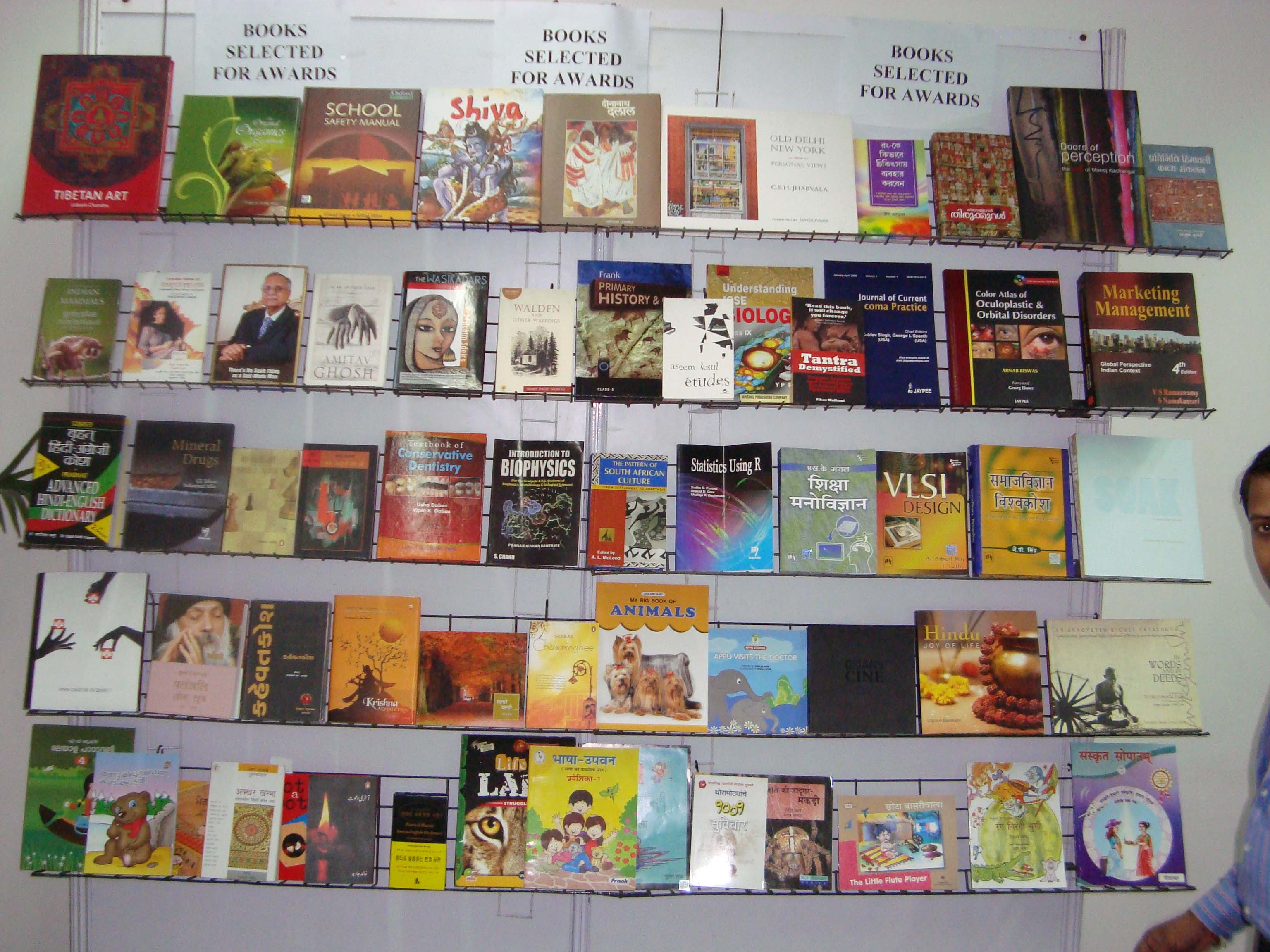 Read more here